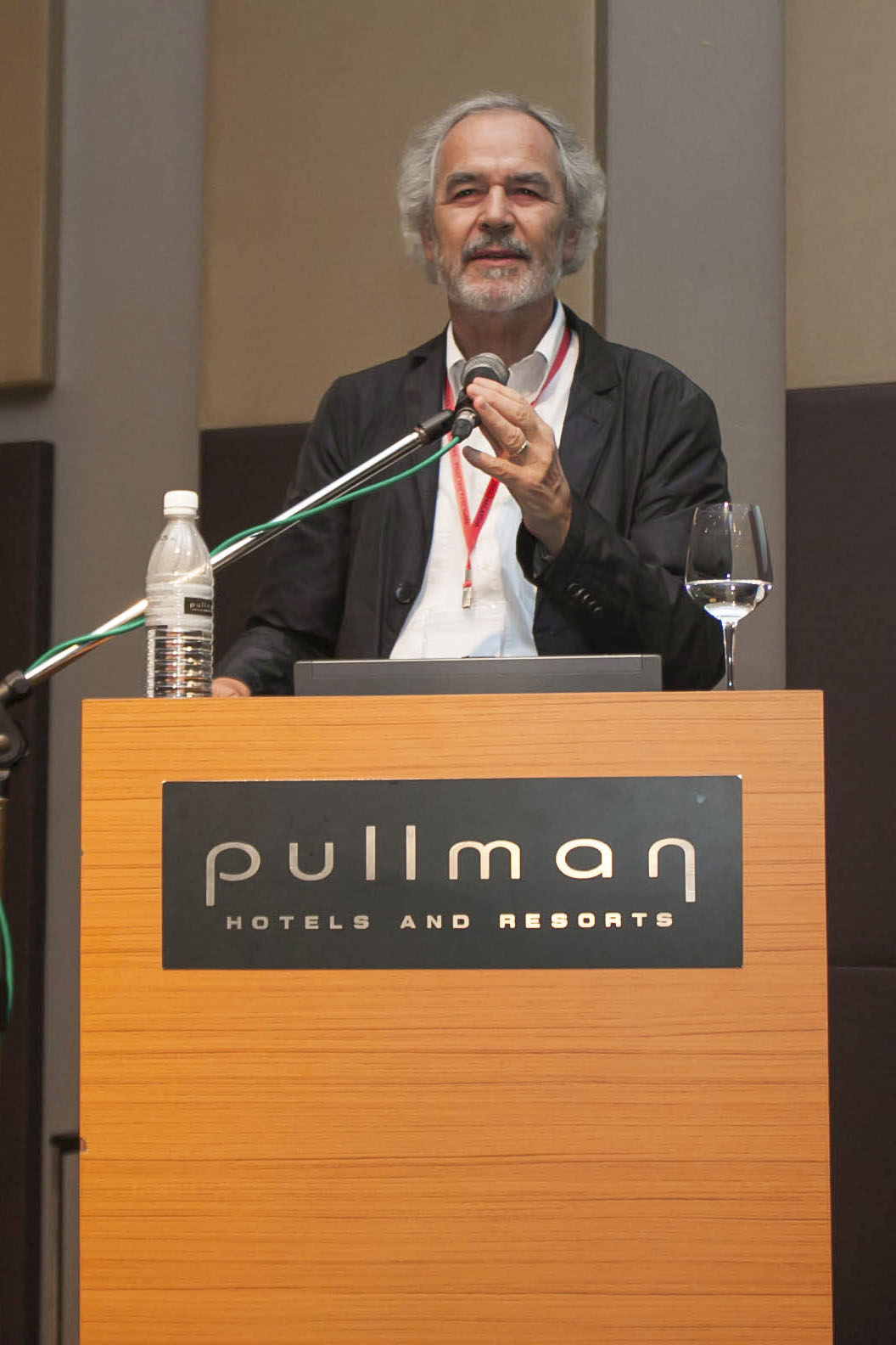 Bernd Krämer, member of the board of the Society for Design and Process Science (SDPS) opens the Awards and Gala Dinner in the conference hotel in Kuching, Sarawak, Malaysia